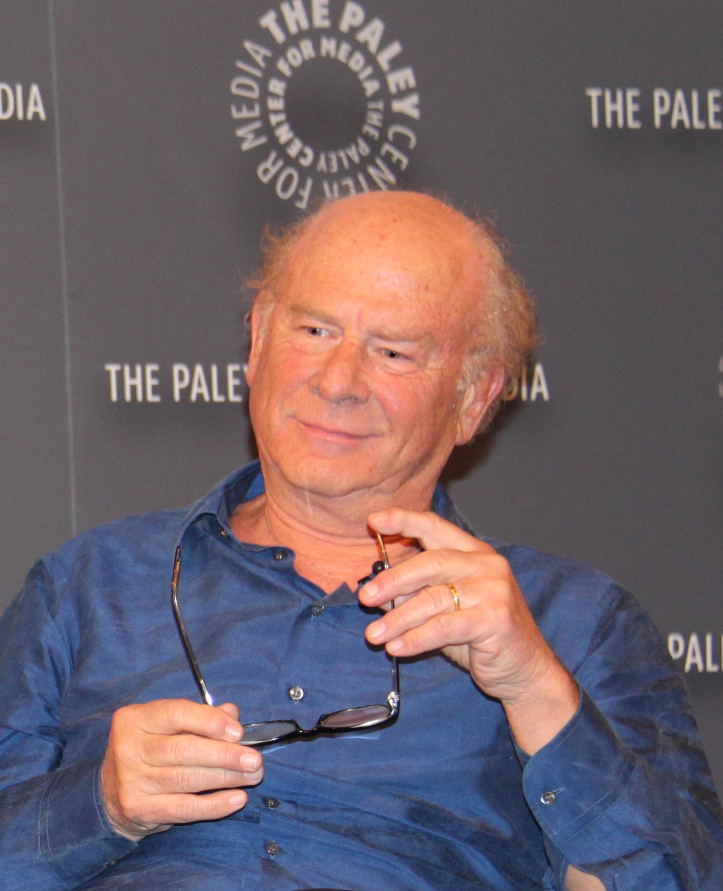 Art Garfunkel in 2013, At the Paley Media Center, NYC.2/6/2013.